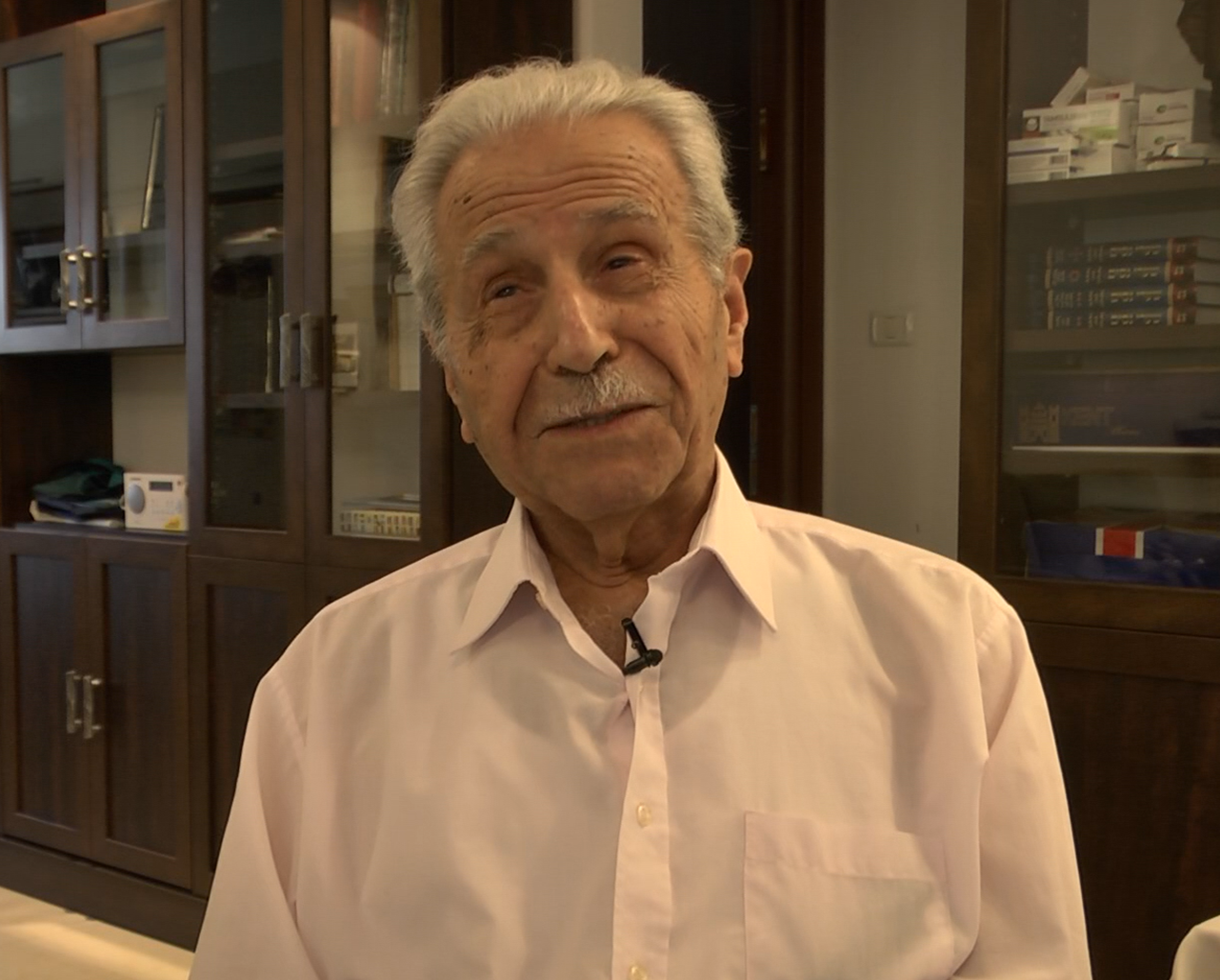 David Fatal, Member of the Knesset 1959-1969.